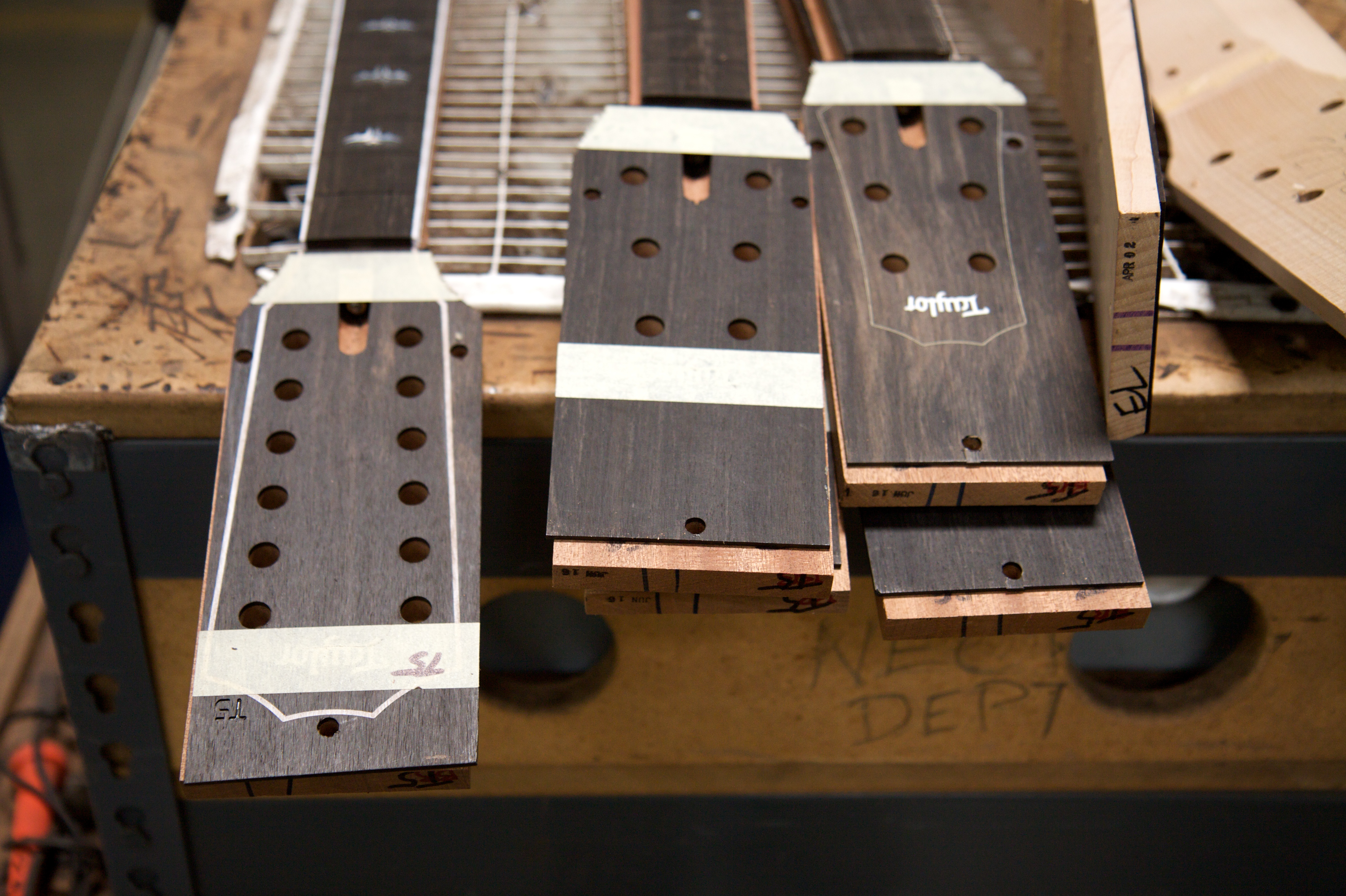 TGFT37 veneer of guitar headstocks - Taylor Guitar Factory